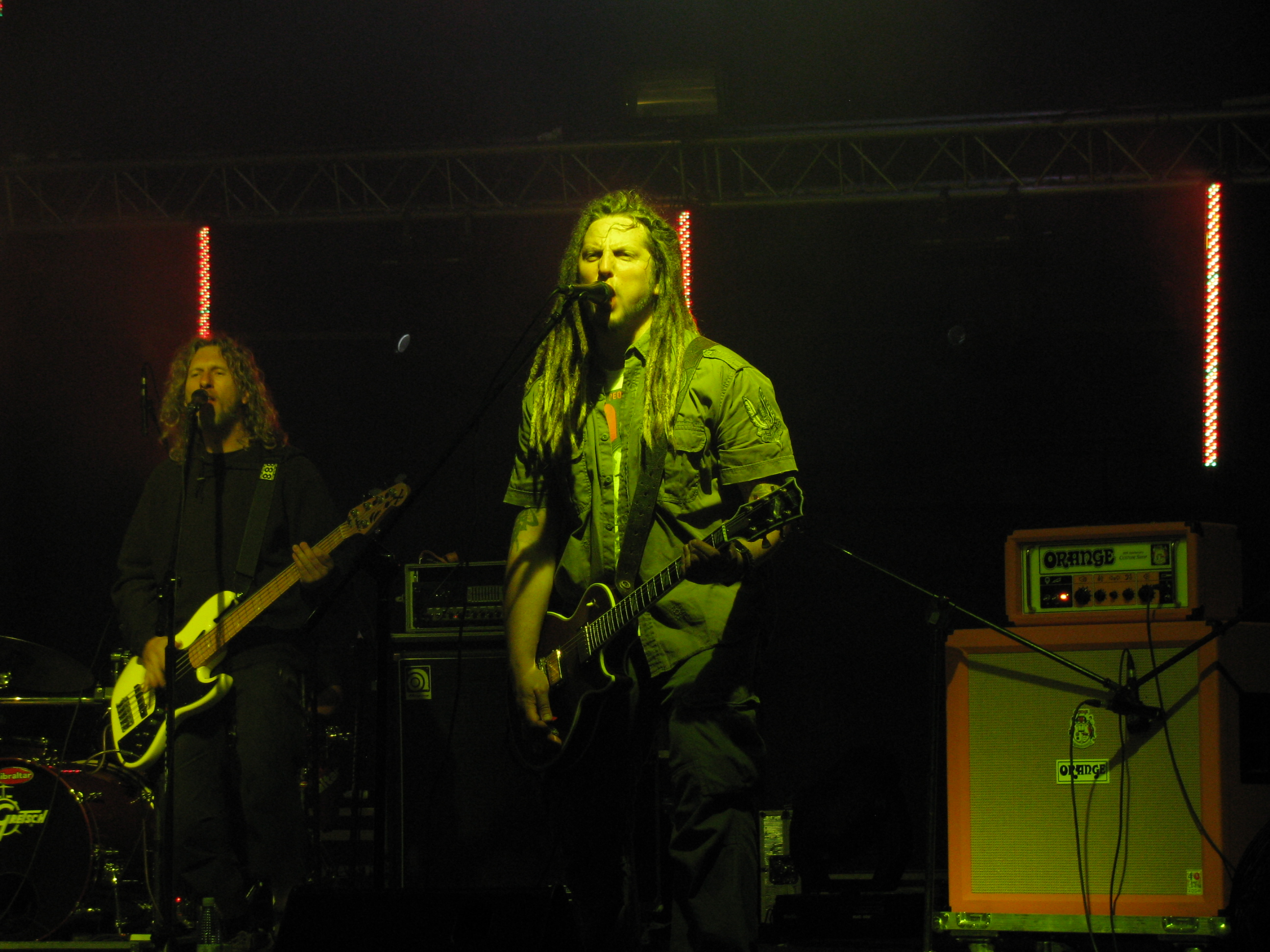 2Tm2,3 in concert. Żukowo, Poland